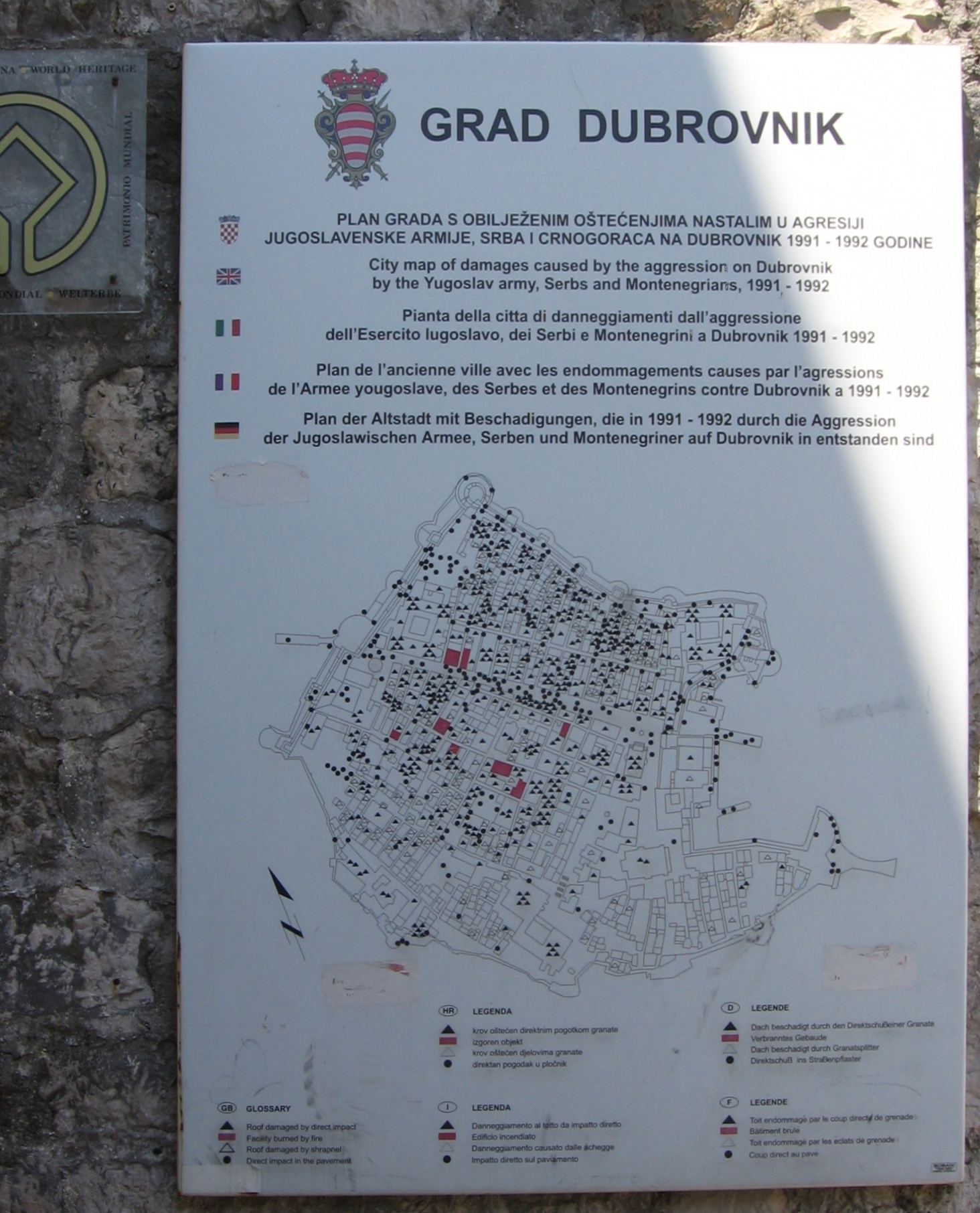 Dubrovnik, Croatia - the board near the entrance into old town: “City map of damages caused by aggression on Dubrovnik by the Yugoslav army (1991-1992)”